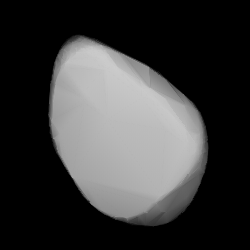 3D convex shape model of 9983 Rickfienberg, computed using light curve inversion techniques. J. Hanuš, J. Ďurech, M. Brož, B. D. Warner (June 2011). "A study of asteroid pole-latitude distribution based on an extended set of shape models derived by the lightcurve inversion method". Astronomy and Astrophysics 530: A134. ISSN 0004-6361. arXiv